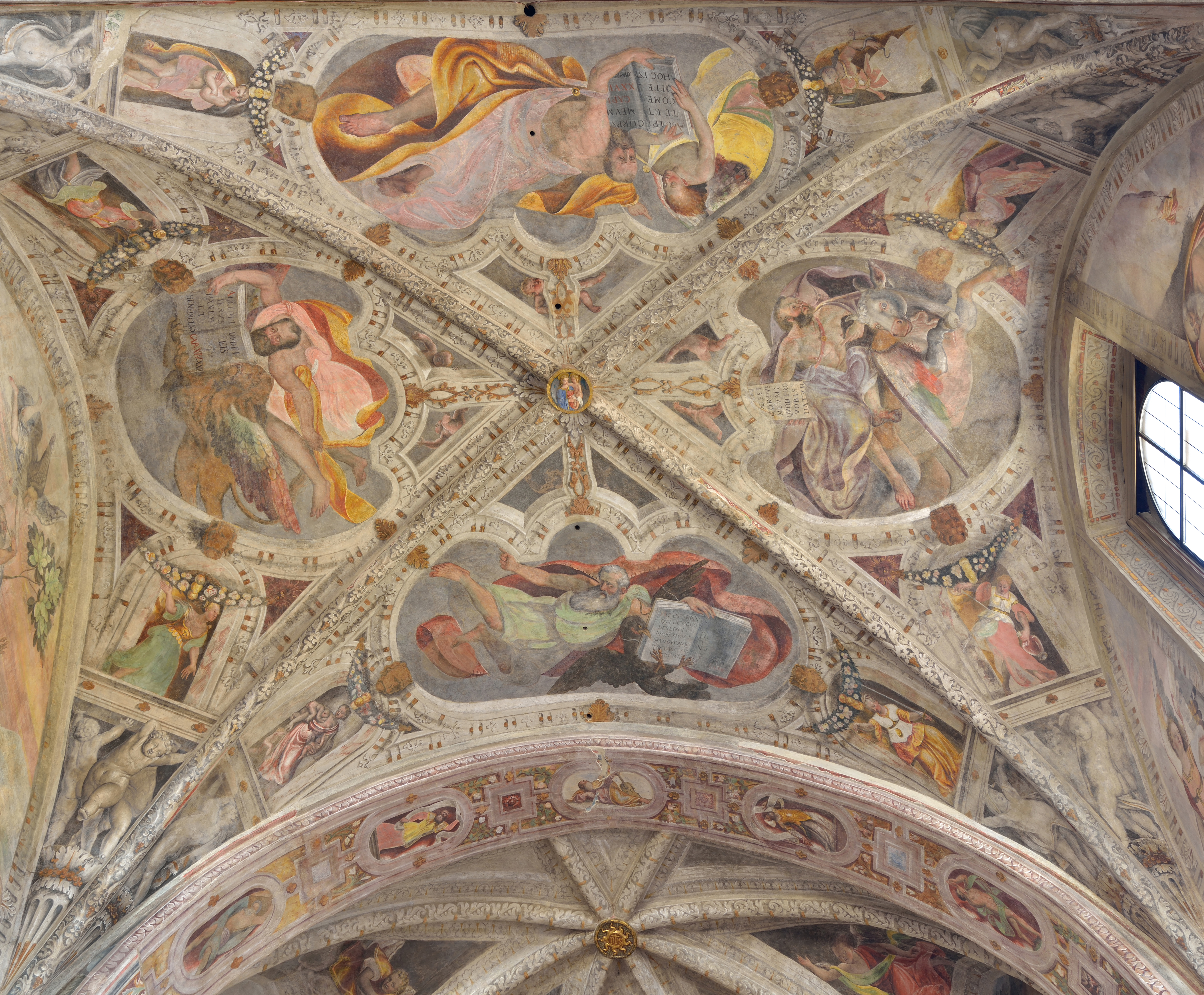 Fresco of Four Evangelists by Benedetto da Marone in the vault of the presbitery Santo Corpo di Cristo Monastery church in Brescia